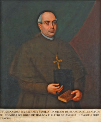 D. Friar Alexander of the Holy Family (1737-1818), bishop of Angra.